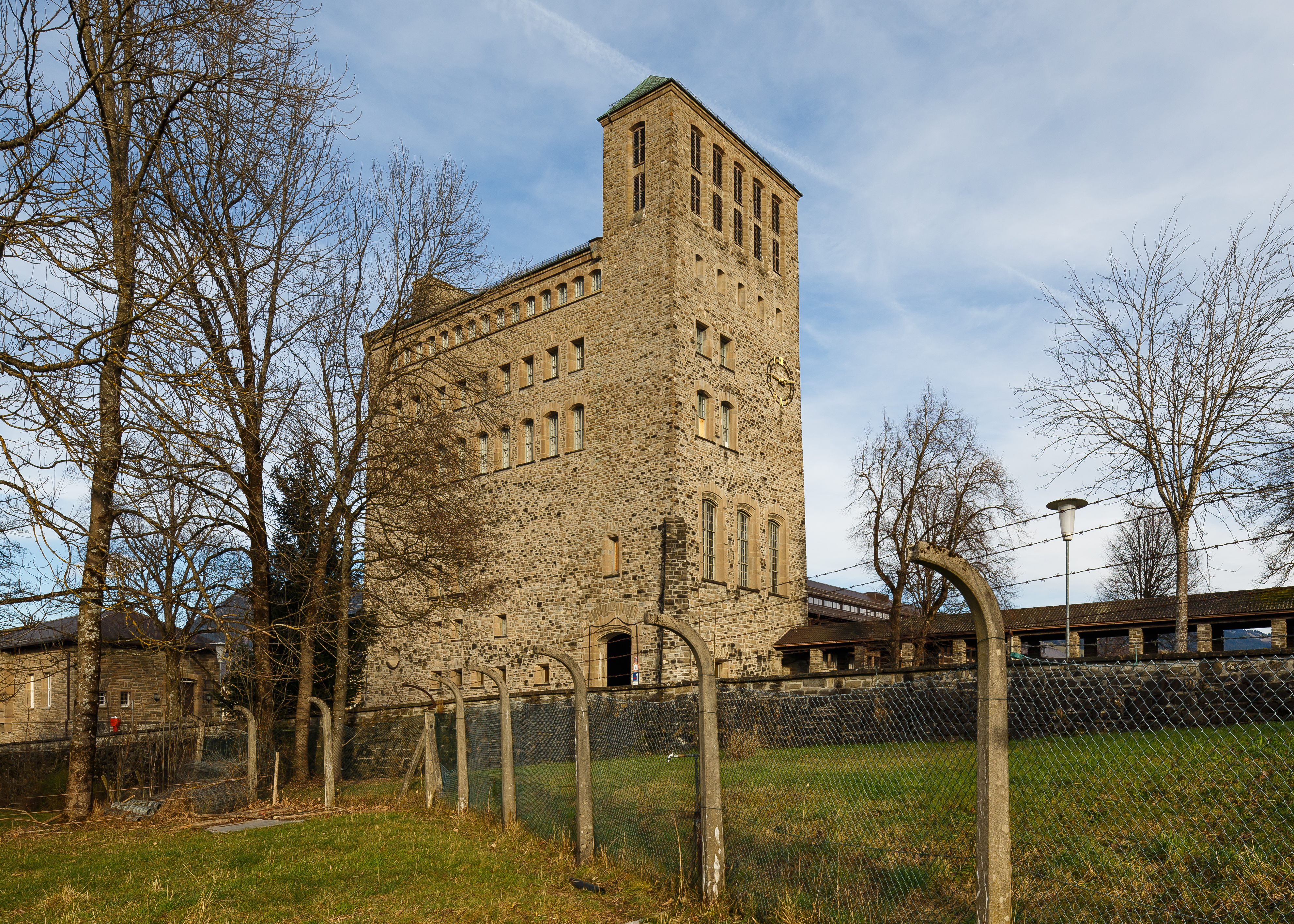 Sonthofen, Germany: Former national socialist "Ordensburg" (an Adolf-Hitler-School for the education of party cadres), now Generaloberst-Beck-Kaserne )barracks of the armed forces of Germany)